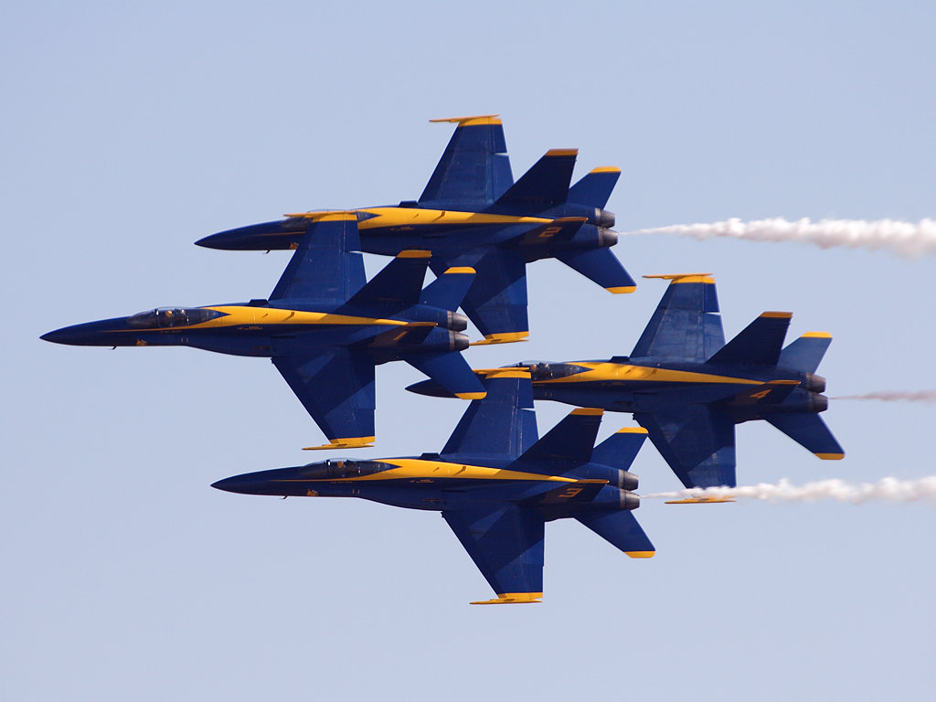 The Blue Angels in Diamond formation. Public domain.